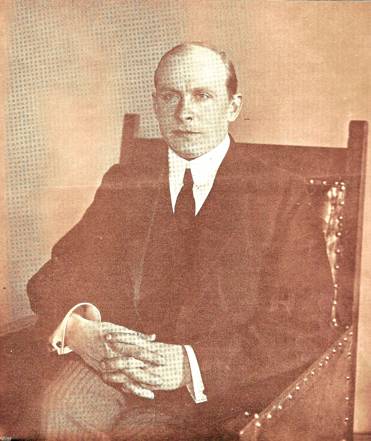 Willem M. van der Scheer